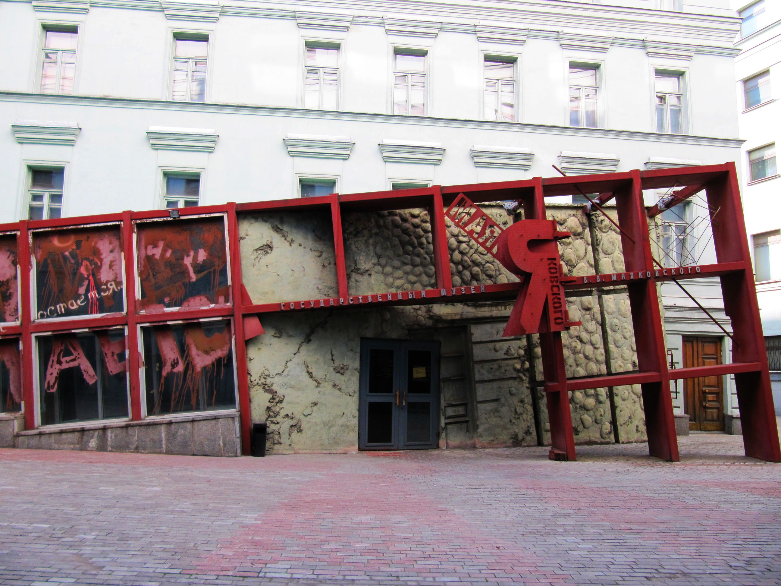 Mayakovsky museum in Moscow